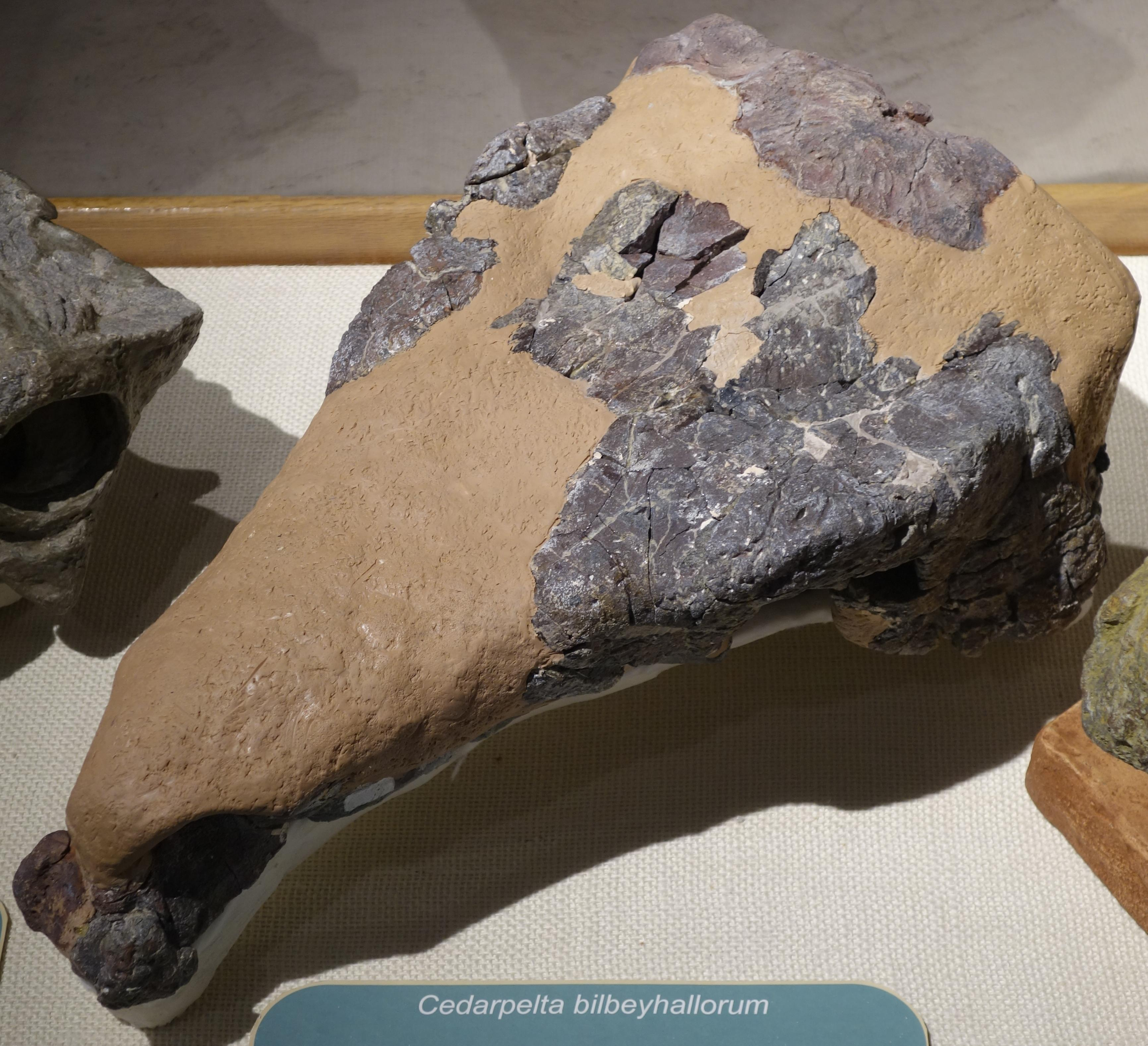 Cedarpelta bilbeyhallorum skull, reconstructed from two partial individuals excavated in 1997, 14 miles southeast of Price. Skull contains 70% of original fossil bone. On display at the USU Eastern Prehistoric Museum, Price, Utah (US).